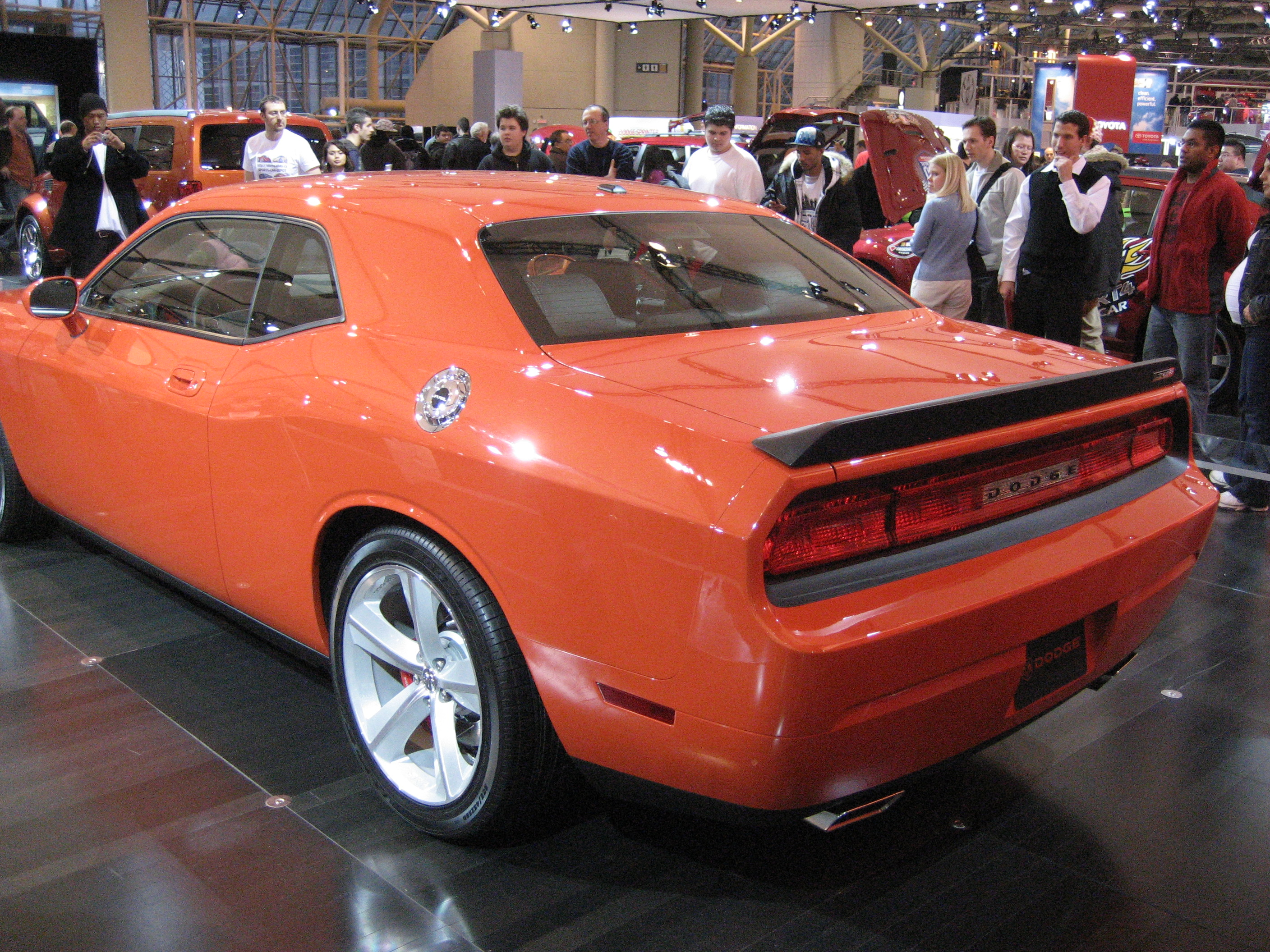 2008 Dodge Challenger (Canadian International Autoshow).